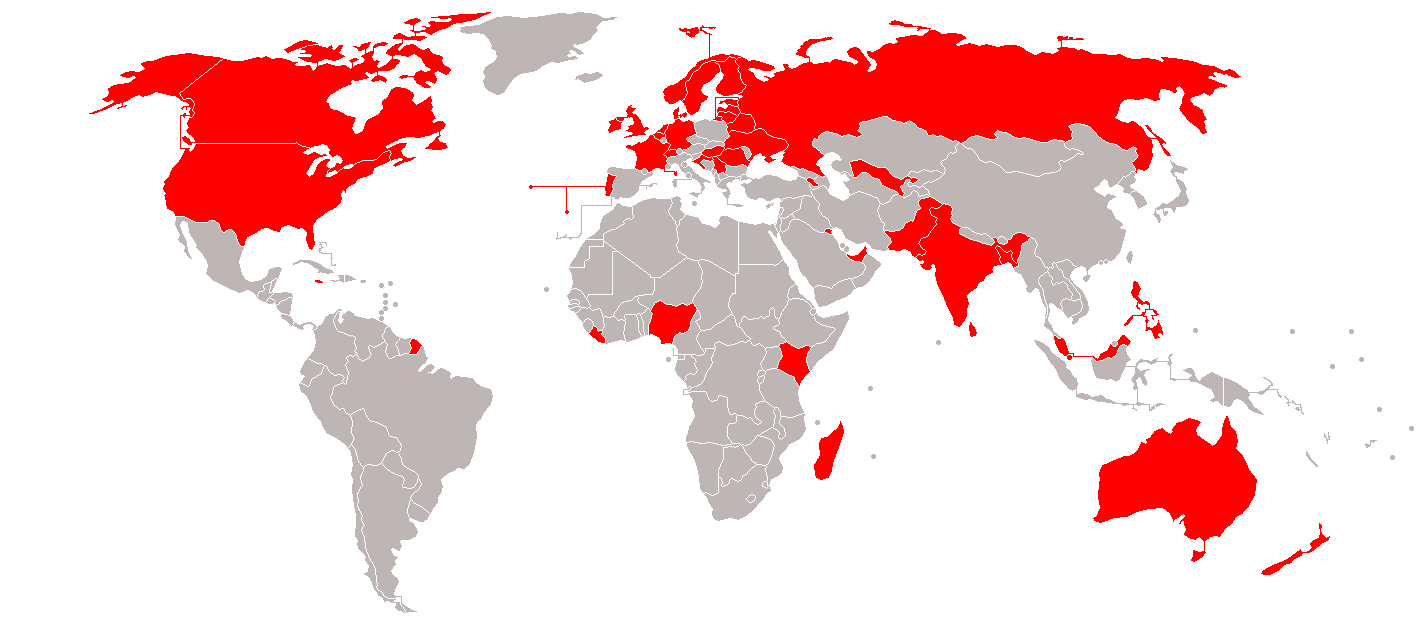 Countries that have participated in World Quizzing Championship 2014